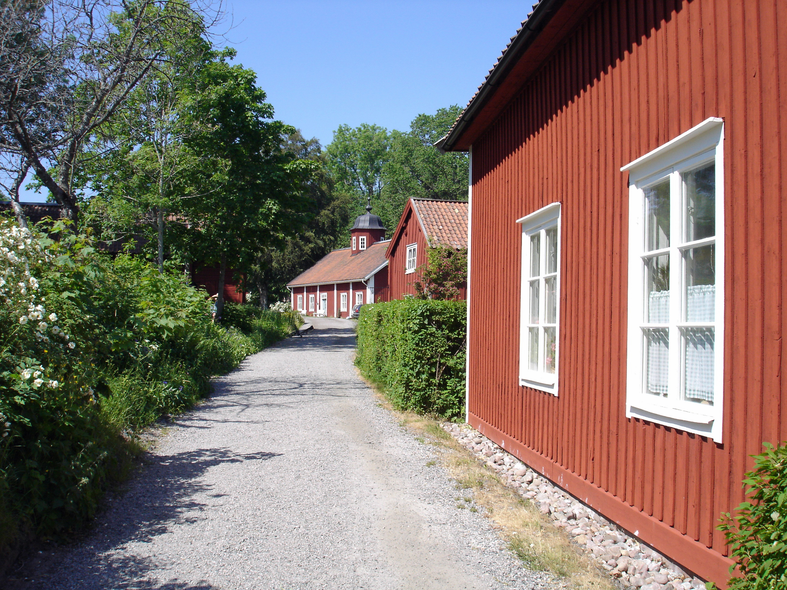 Road Vira bruk